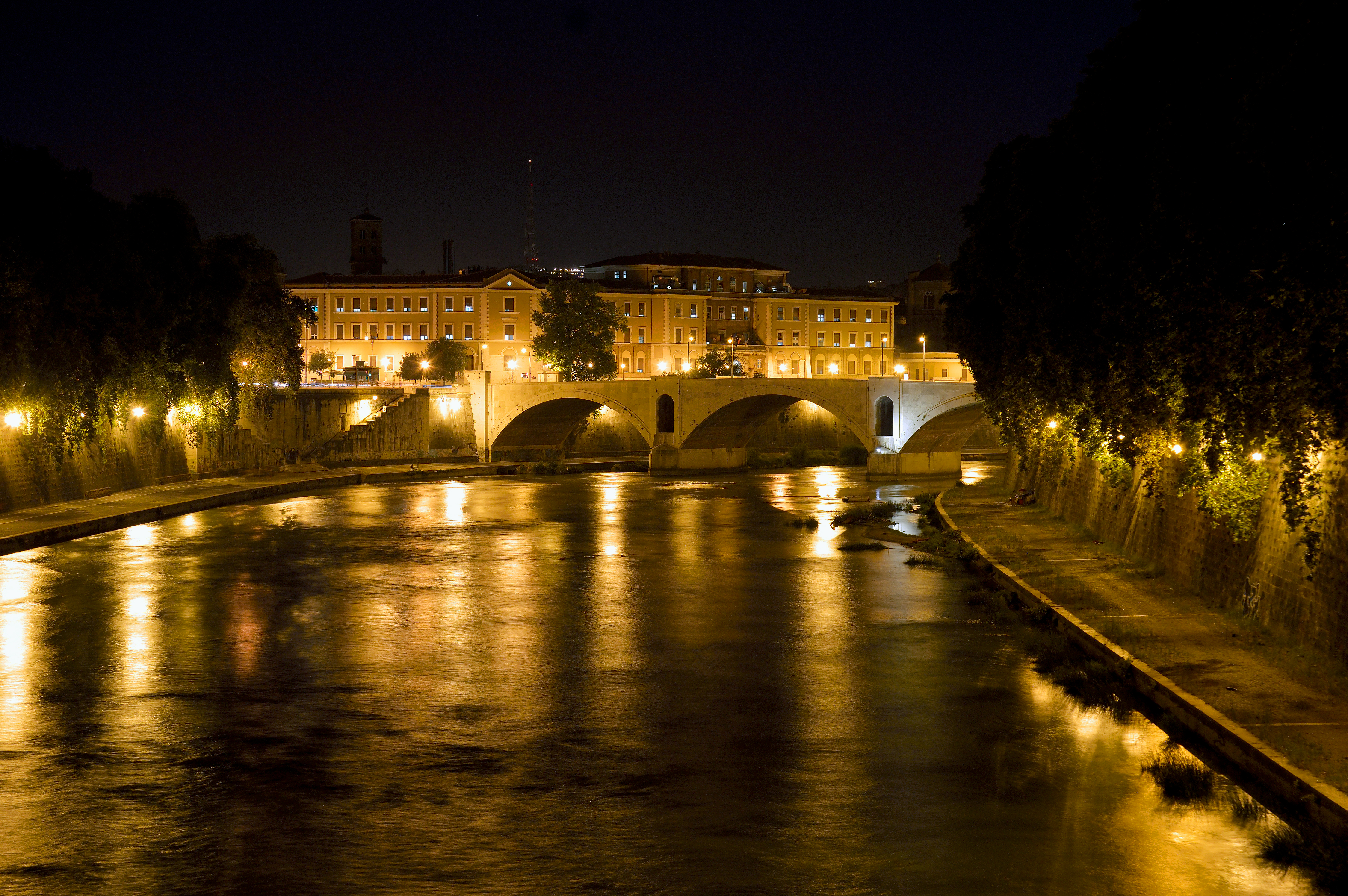 Bridge Principe Amedeo Savoia Aosta at Night